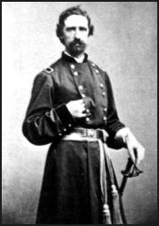 William Jay Smith was brevetted as a Brigadier General in the American Civil War. Served in the Union Army from 1861 to 1865.